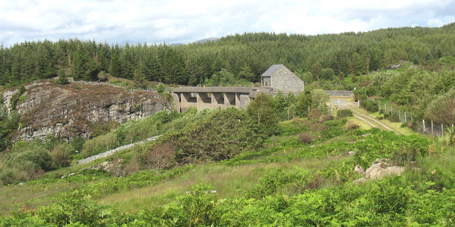 Maentwrog Dam from the west